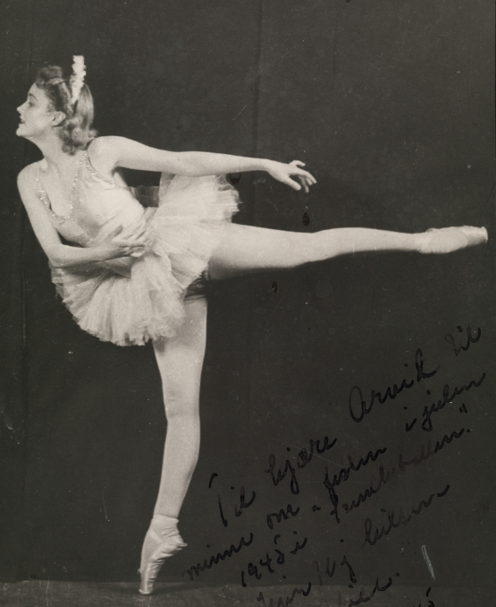 Photograph of the Norwegian ballet dancer Alice Mürer (1925-2002)